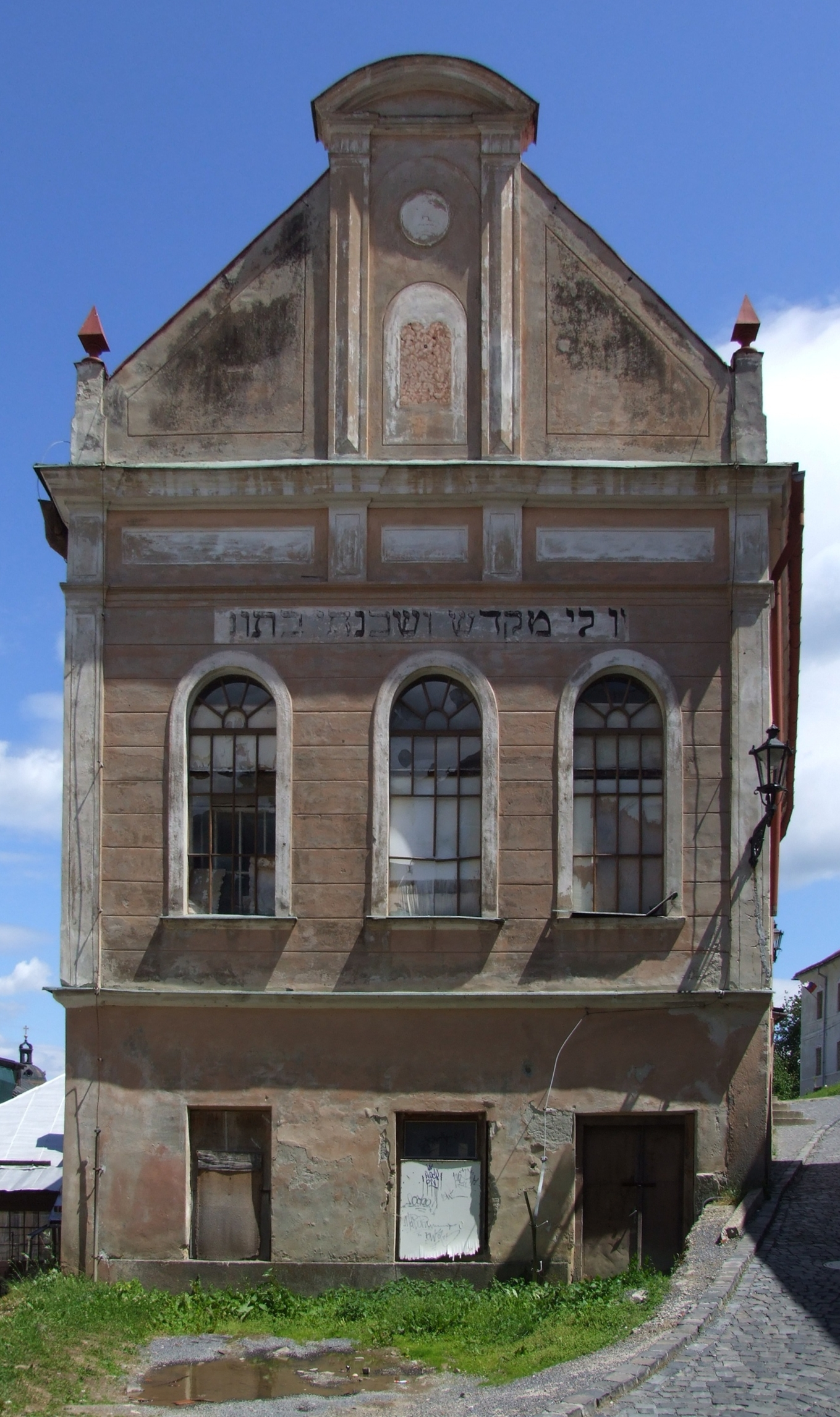 Banská Štiavnica (Schemnitz, Selmecbánya), Slovakia - synagogue